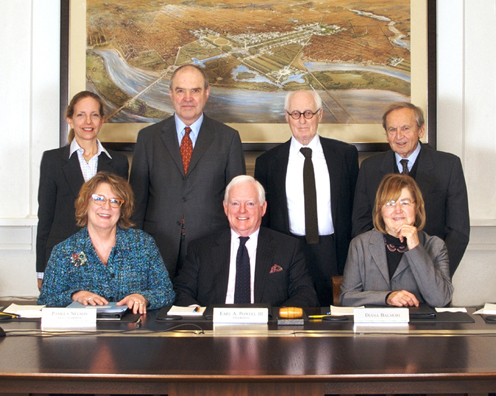 Members of the Commission of Fine Arts (Federal government of the United States) as of February 2009.